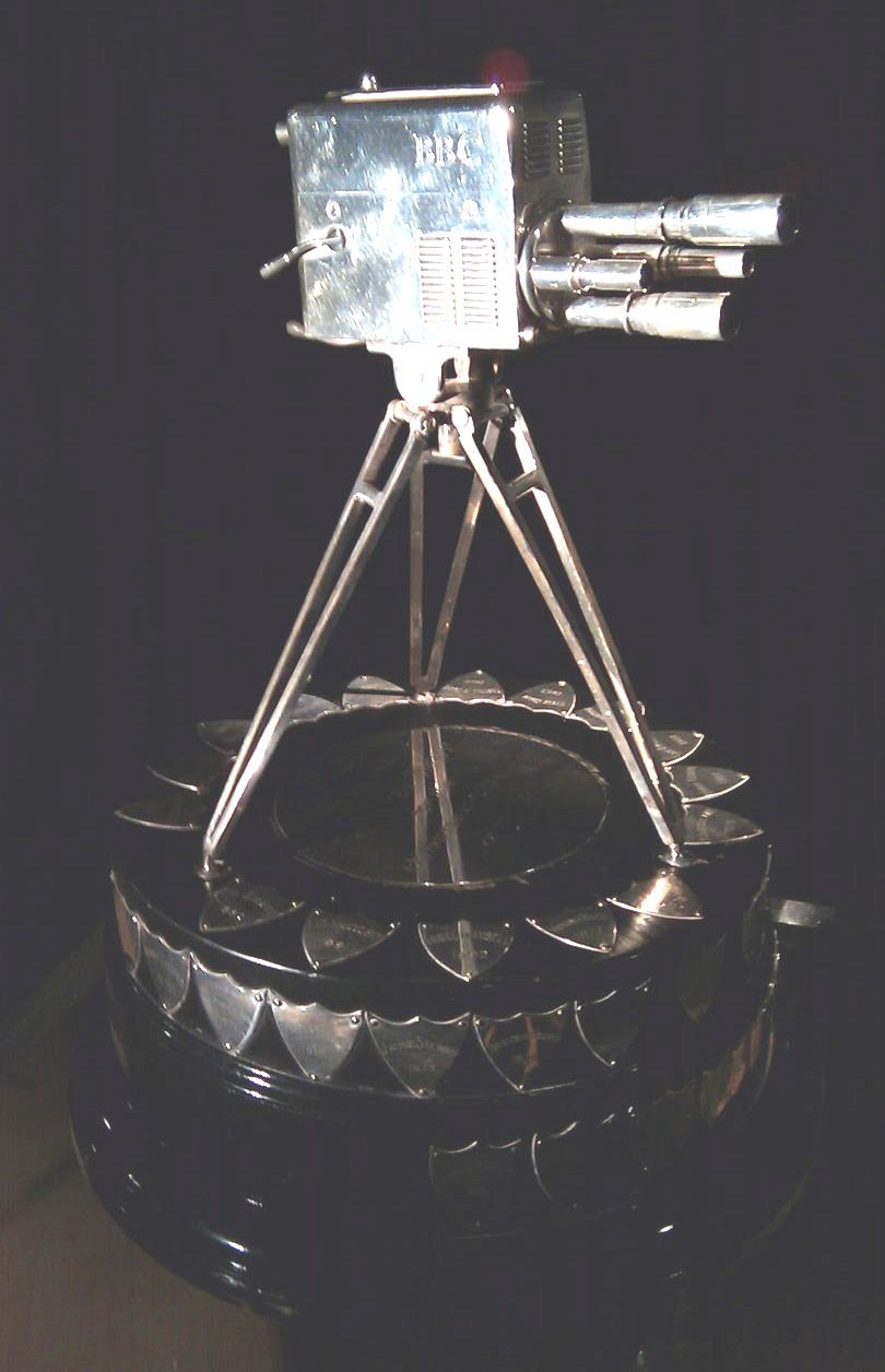 BBC Sports Personality of the Year trophy. Picture taken in Carrington, Greater Manchester, England.